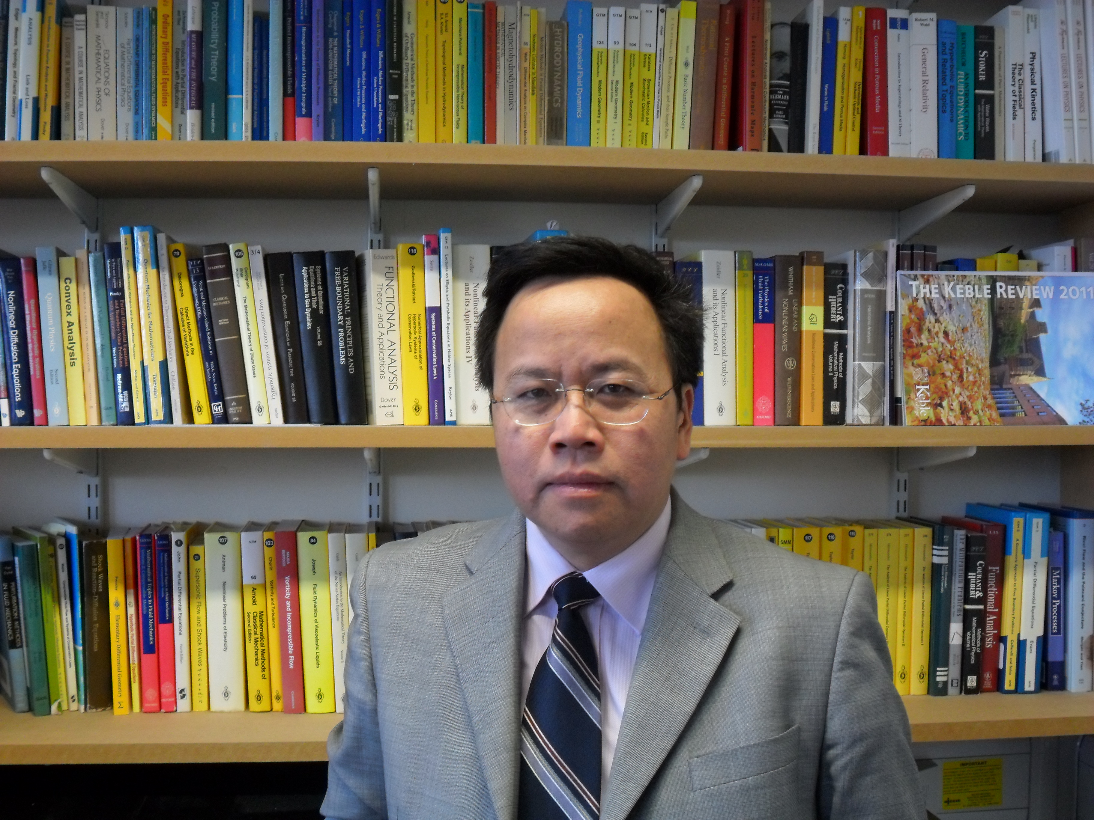 Prof. Gui-Qiang Chen in Oxford